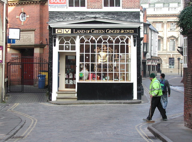 CV hairdressers shop, 2 Land of Green Ginger, Hull, England